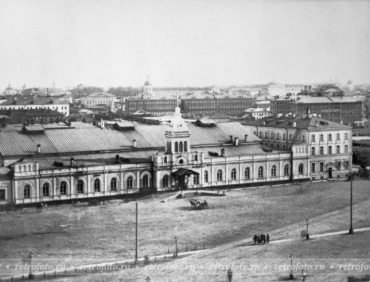 pre-revolutionaty russian postcard of Kazansky Rail Terminal